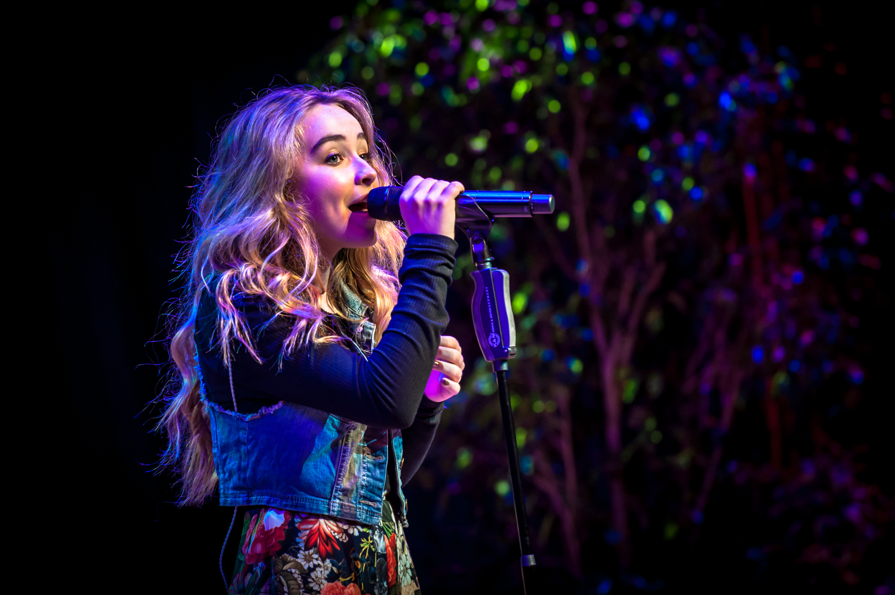 Sabrina Carpenter - Disney Social Media Moms Conference - Disney Junior Morning